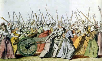 Women’s March on Versailles, 5-6 october 1789. This picture shows the women's march on Versailles. Louis XVI agreed to accompany them back to Paris.